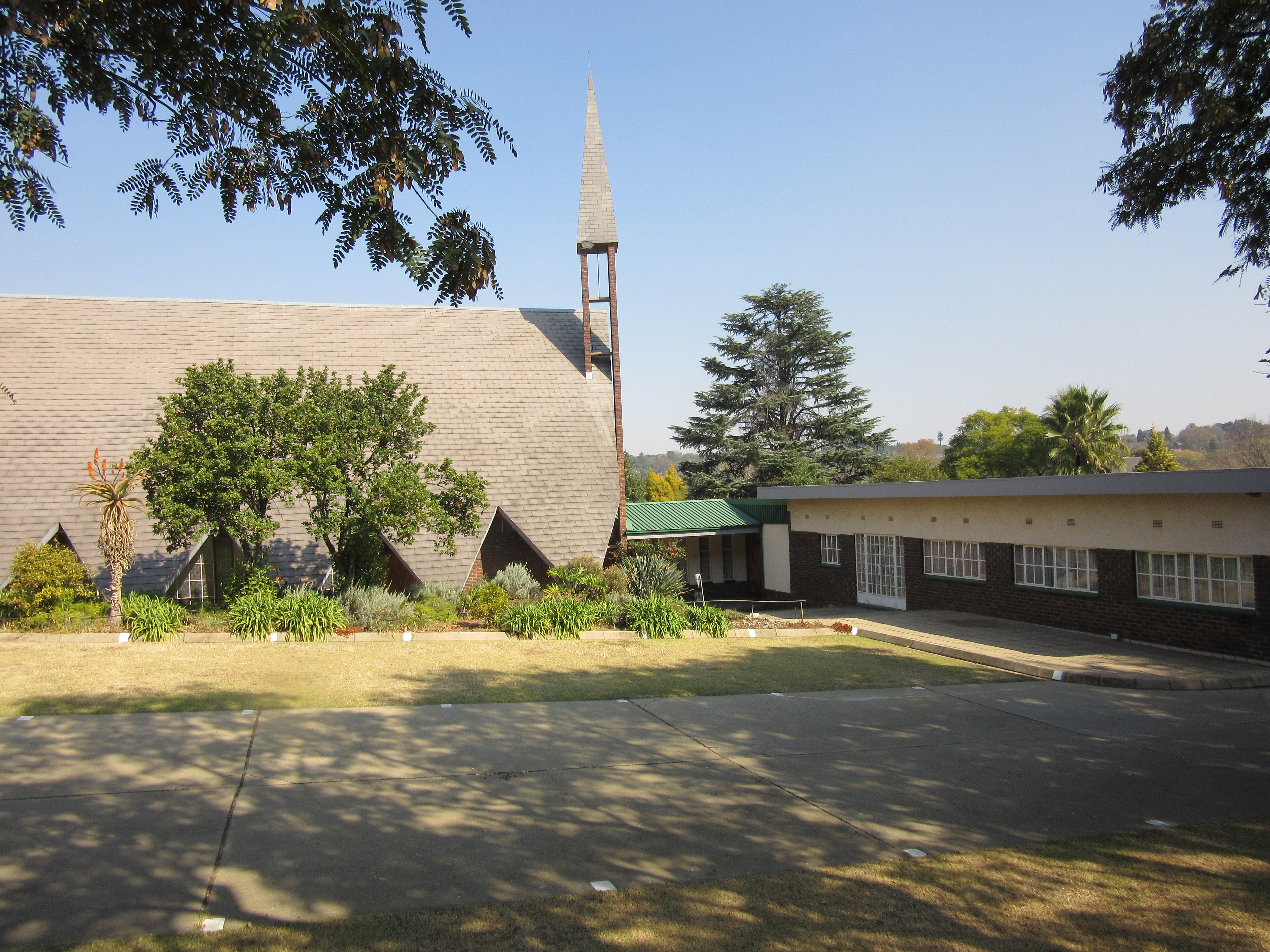 Het kerkgebouw is gebouwd in 1975 en in gebruik genomen door ds. H. Ligtenberg en het verenigingsgebouw (met het platte dak rechts) in 1979 door ds. A. Hoogerland.